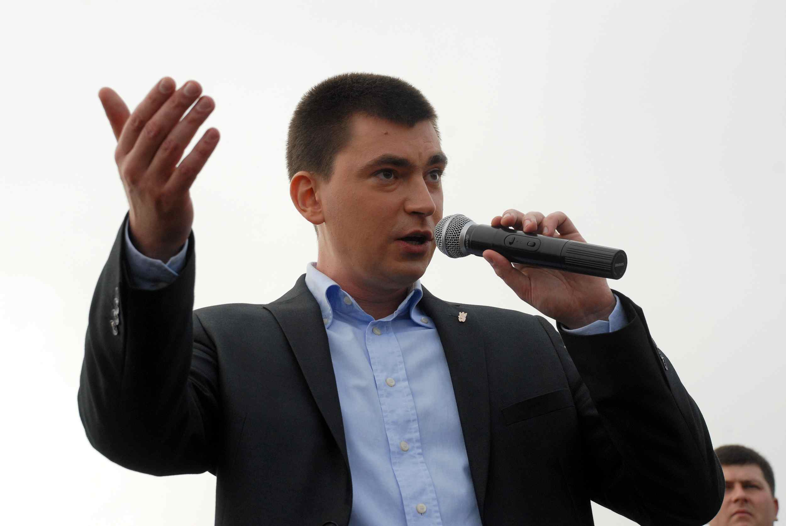 Yuriy Mykhalchyshyn, Ukrainian politician, member of the Ukrainian Verkhovna Rada